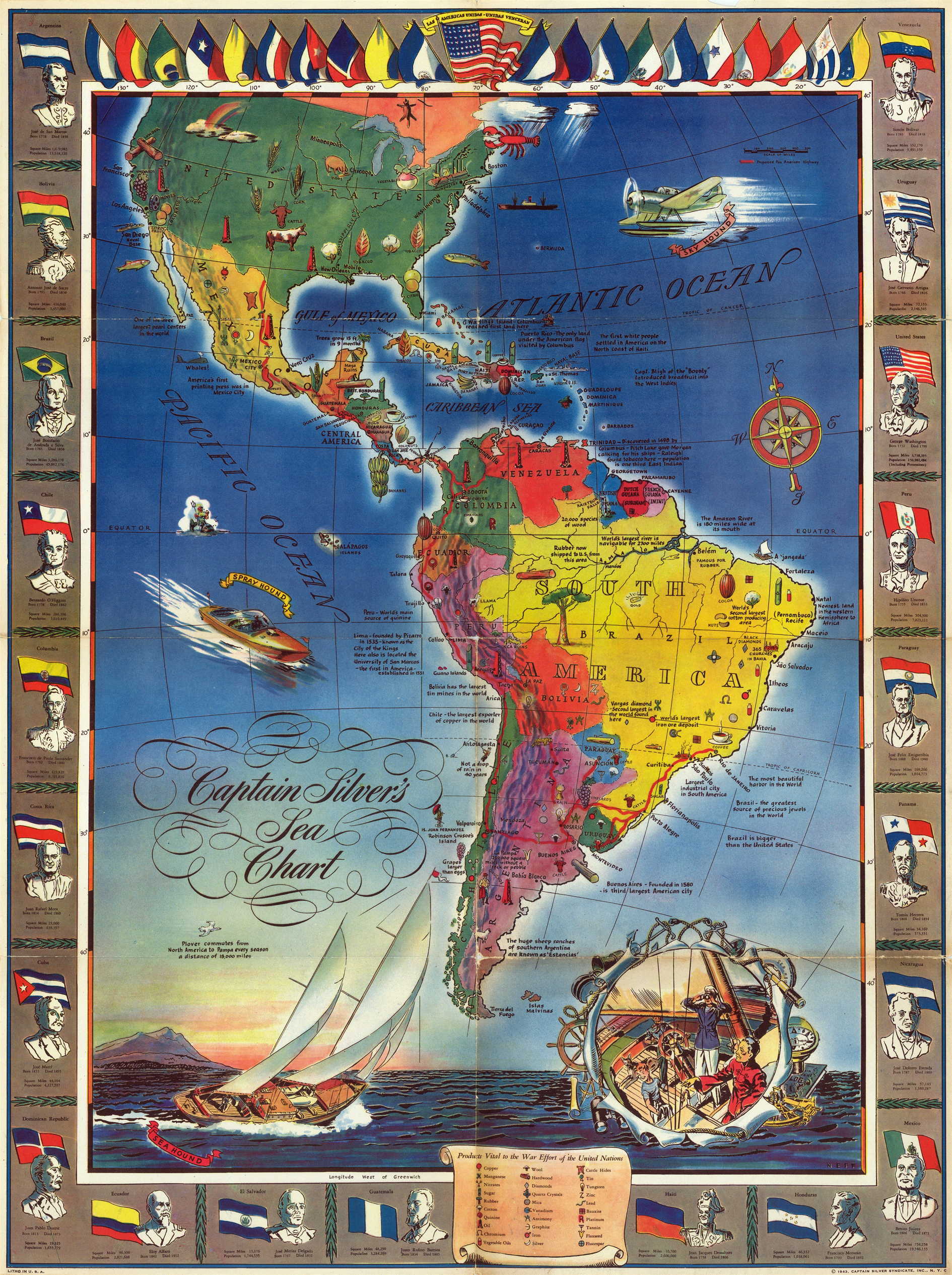 Poster for the Blue Network radio program The Sea Hound, produced in association with the Office of the Coordinator of Inter-American Affairs " … reissued with changes in 1943"